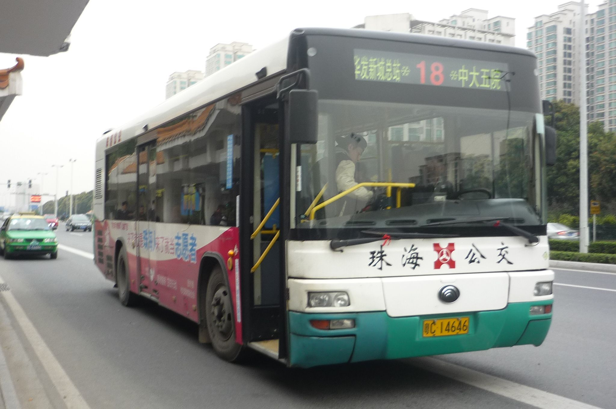 Zhuhai Bus Route 18